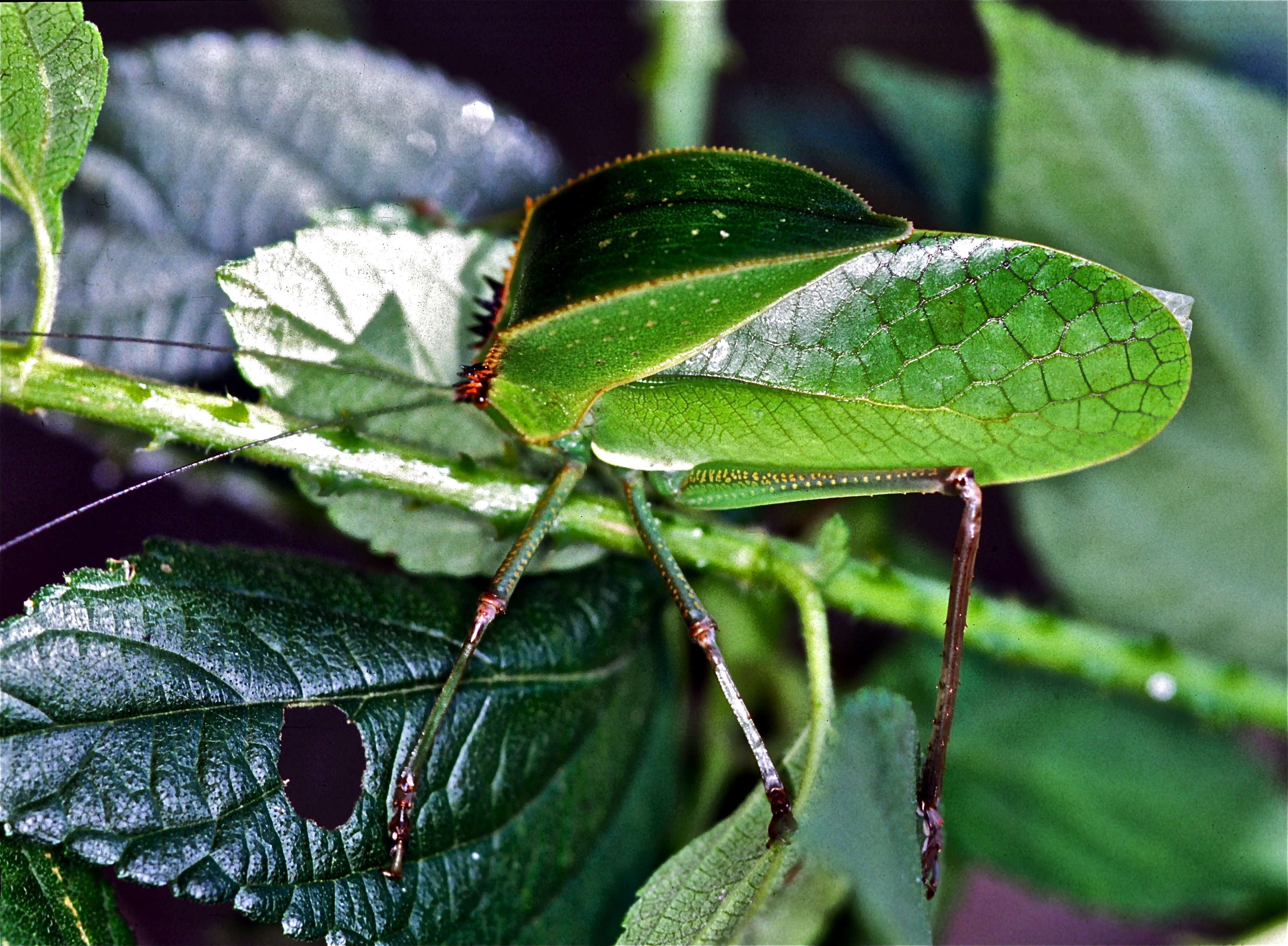 Réserve Peyrieras, Moramanga, MADAGASCAR Scanned Slide from 2004